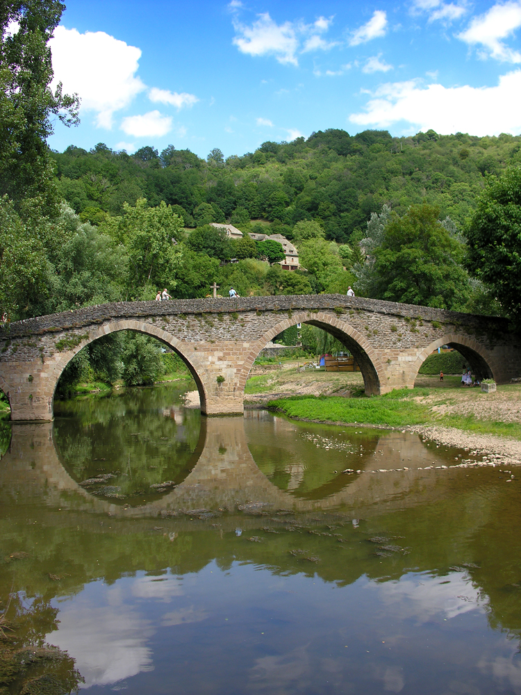 Photography of the bridge of Belcastel, Aveyron, France .